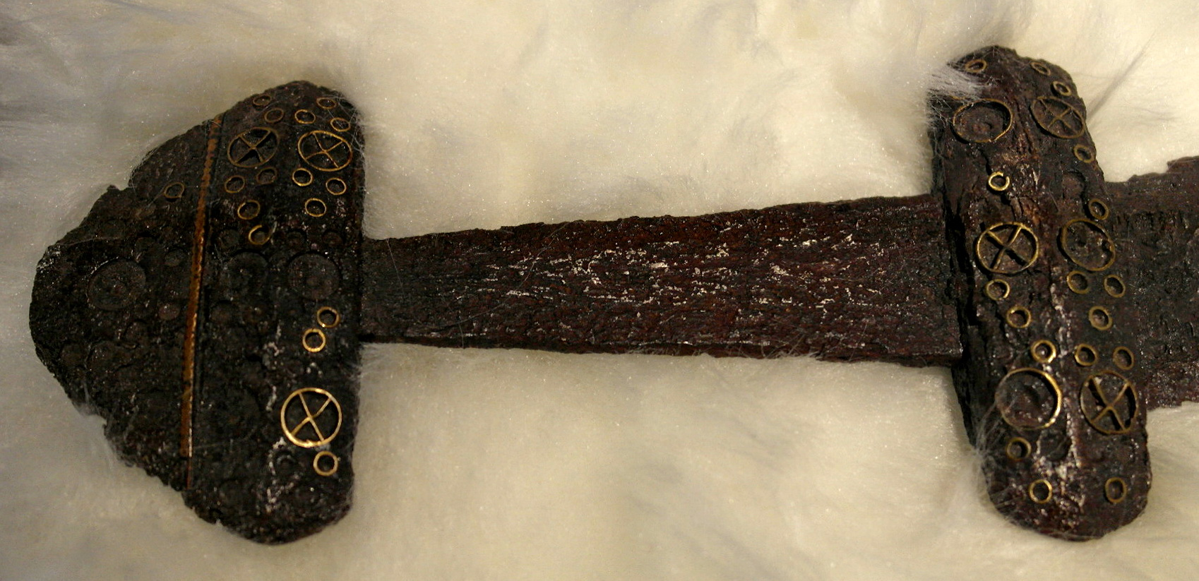 Viking sword hilt (750-850) from the river Meuse near Den Bosch, the Netherlands. Collection of medieval objects of the Rijksmuseum van Oudheden in Leiden. Photographed in November 2014 at a Viking exhibition in Centre Céramique, Maastricht.